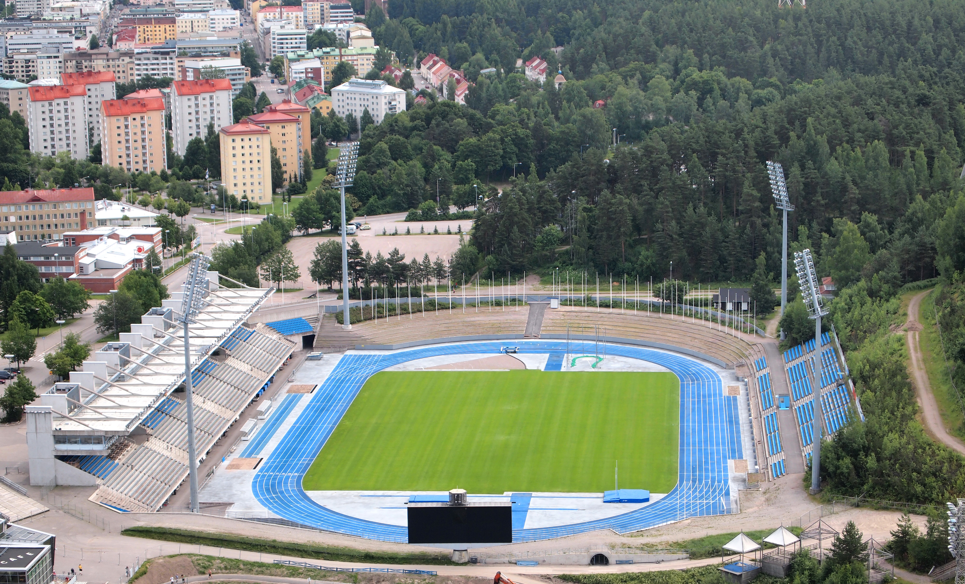 View from the ski jumping hill towards the Lahti Statium.